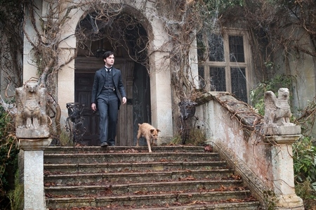 Daniel Radcliffe in The Woman in Black